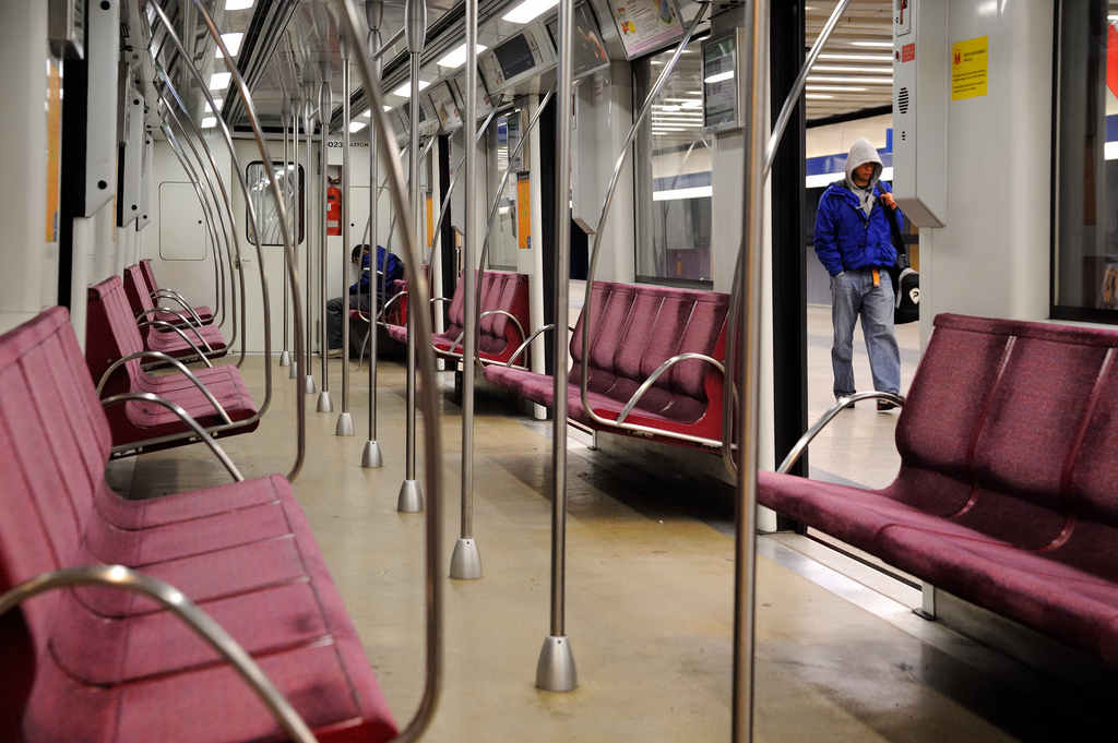 I've been wondering whether metro/subway shots still count as 'street' photography. I'm thinking yes, because it is a public space with pretty much the same social 'rules of conduct' as an open street, so it's subject to the same observations and impressions by a photographer. I'm curious about the opinions of others, though. I'm posting this in a few 'street' groups. If you're an admin/mod of one and you think this picture doesn't belong in your group, feel free to delete it, I won't feel bad. However, a few words of input would be most welcome.